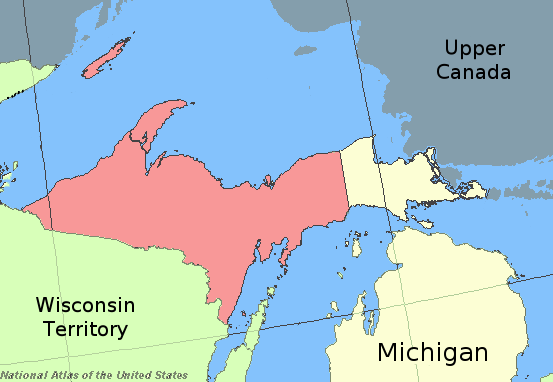 Modified from Upper Peninsula picture. GNU Public. Shows the territory traded from Wisconsin Territory to Michigan as a result of the Toledo War. Used pics from Upper Peninsula of Michigan, and source of from the State of Michigan.